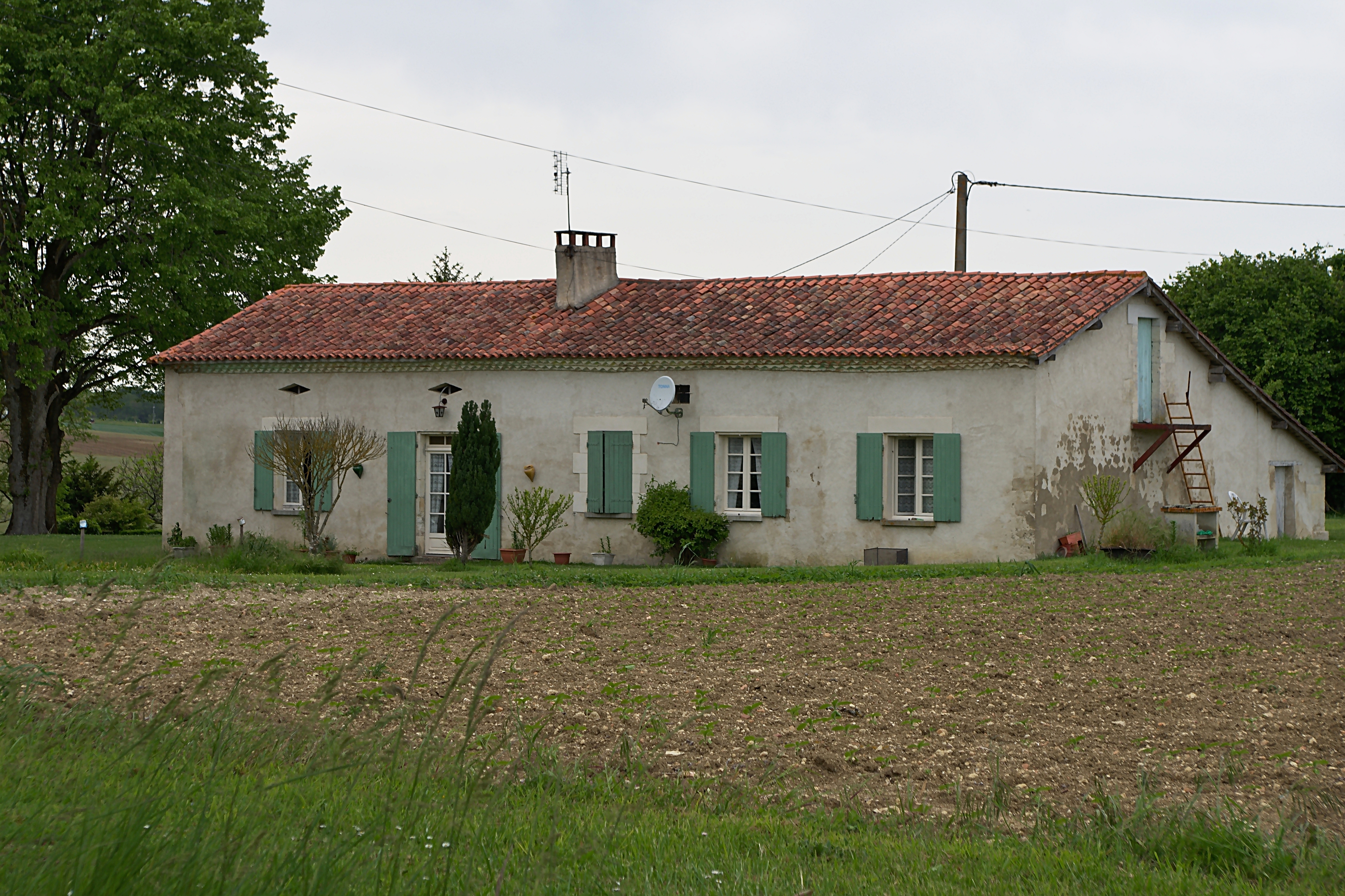 In this house lived Prosper Châtaignier who inspired Pierre Véry when He wrote Goupi mains rouges. Near Bellon, Charente, France.